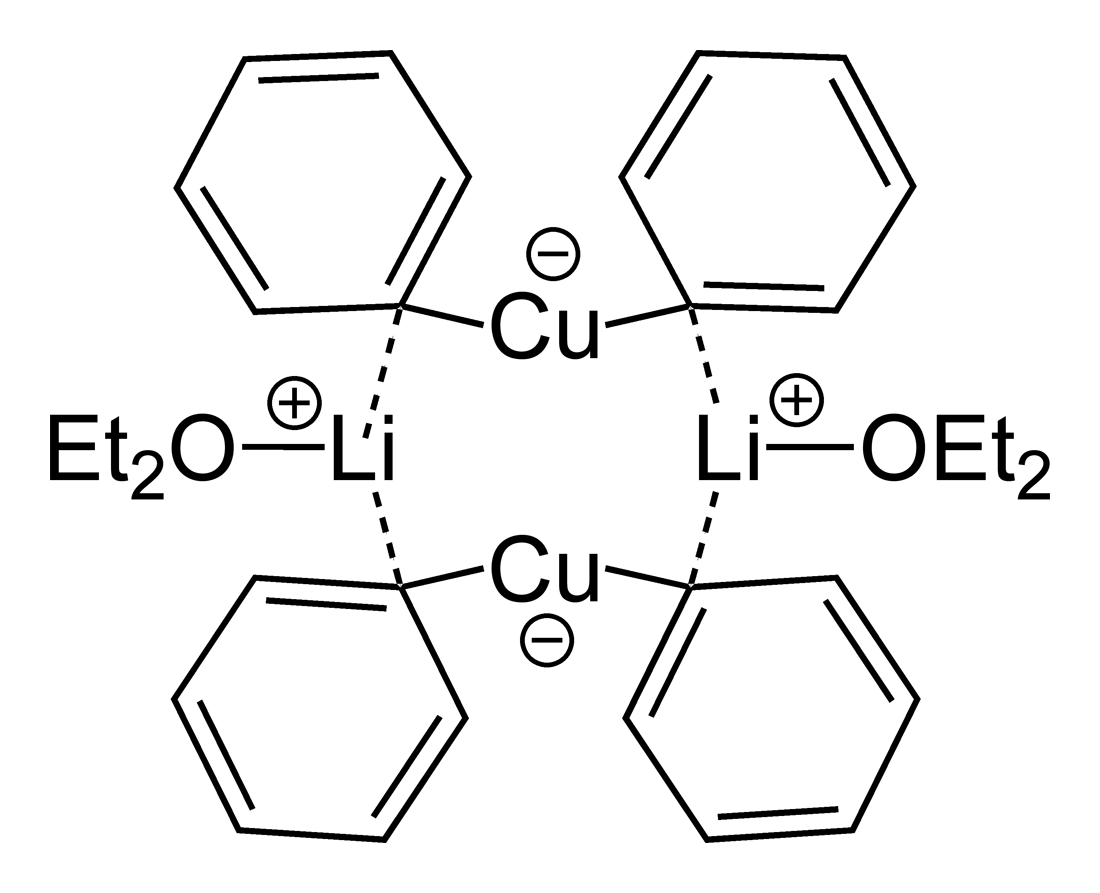 Skeletal formula of a dimer from the crystal structure of lithium diphenylcuprate etherate, Ph2CuLi·2OEt2. X-ray crystallographic data from Angew. Chem. Int. Ed. (1990) 29, 300-302.